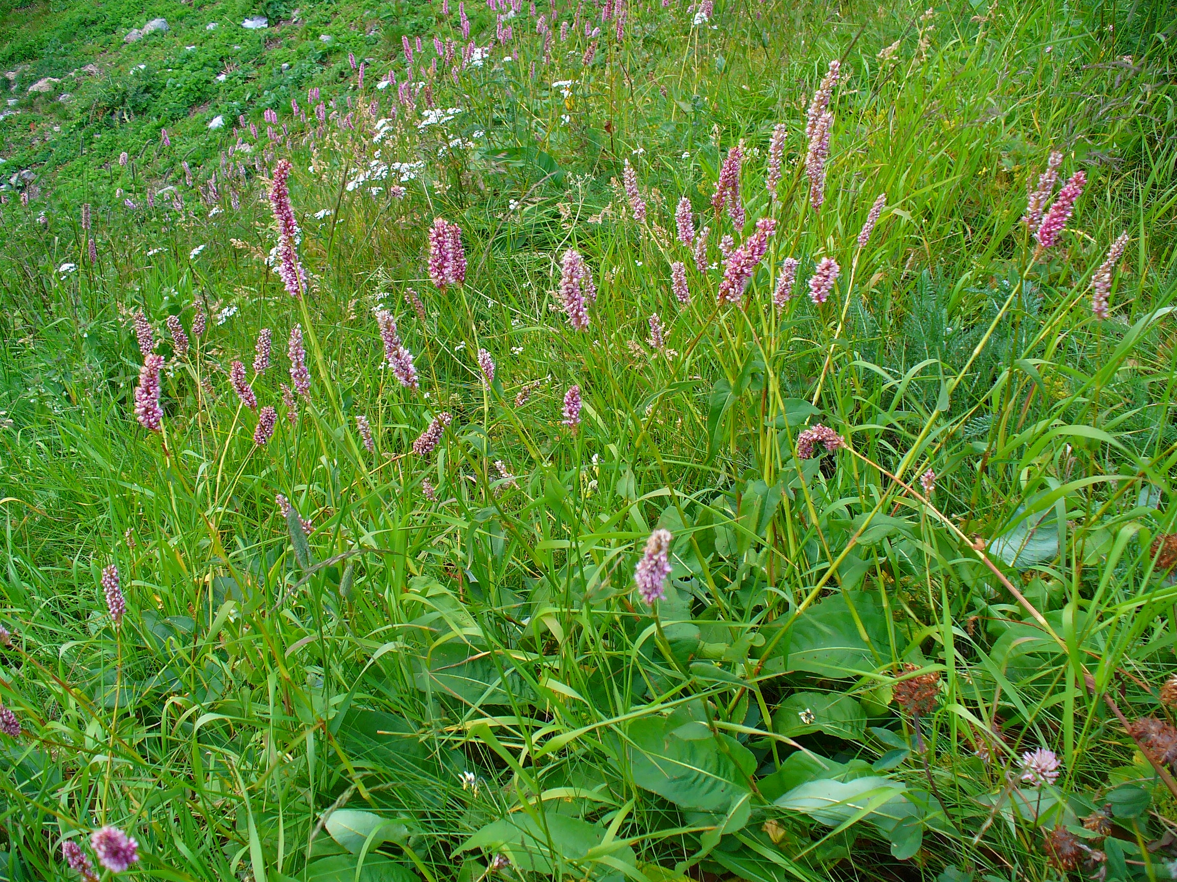 Bistorta officinalis, Polygonaceae, Common Bistort, habitus. Muottas Muragl, Engadin, Switzerland, altitude ca. 2400 m.